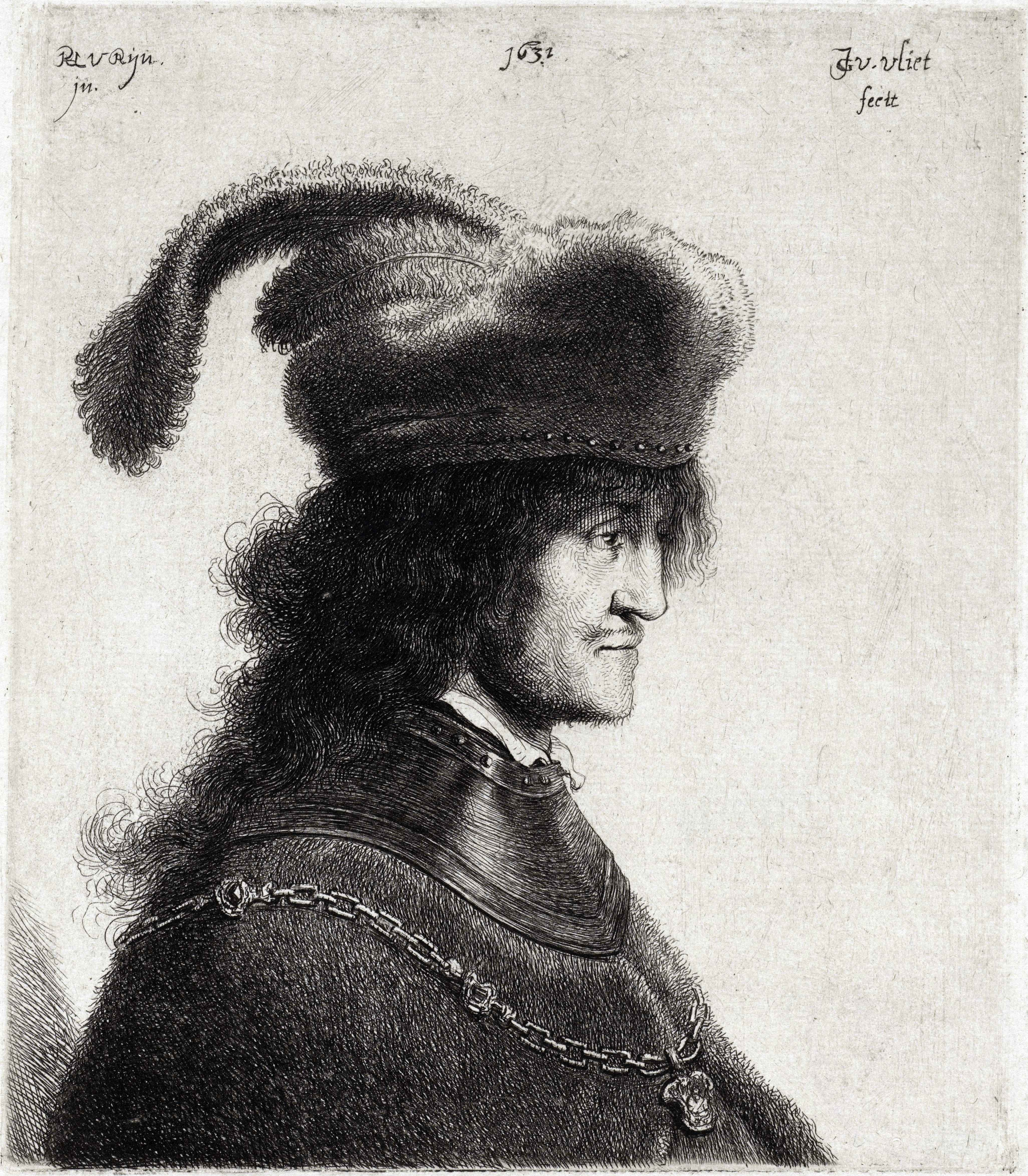 George I (György) Rákóczi of Felsővadász (1593-1648). Engraving by Jan Gillisz. van Vliet after a design by Rembrandt van Rijn.